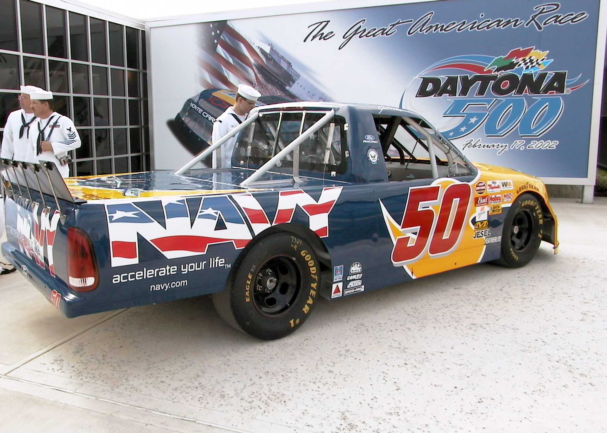 020210-O-9999E-001 Daytona International Speedway, FL (Feb. 10, 2002) -- The U.S. Navy and the Roush Racing team, featuring NASCAR Craftsmen Truck Series driver Jon Wood, have teamed up to sponsor Navy Racing No. 50, a Ford F-150. The trucks new paint job was unveiled during a recent press conference at Daytona International Speedway. U.S. Navy photo by Ms. Jeri Ezell (RELEASED)